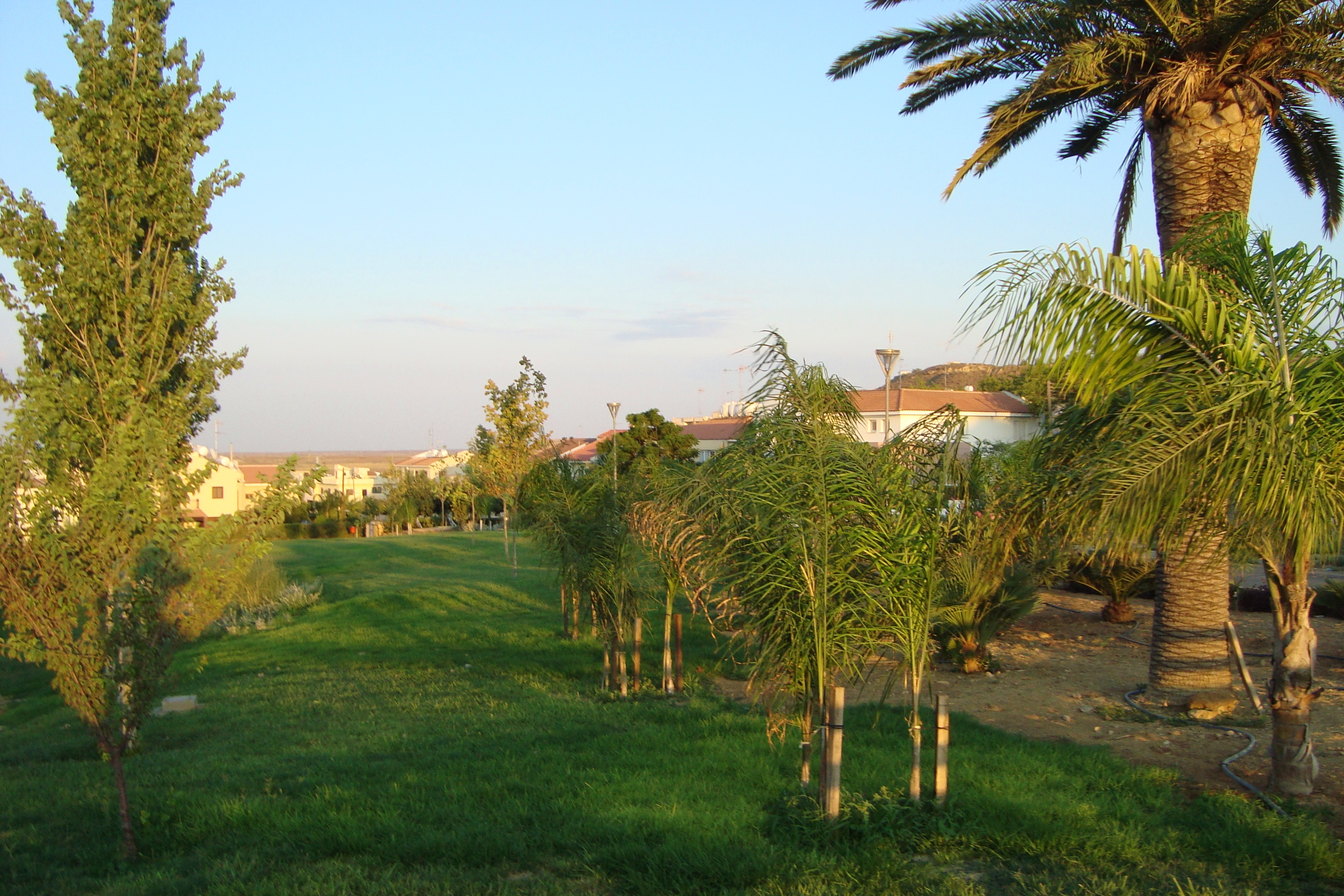 Park in Aglandjia during summer season in Nicosia - Republic of Cyprus